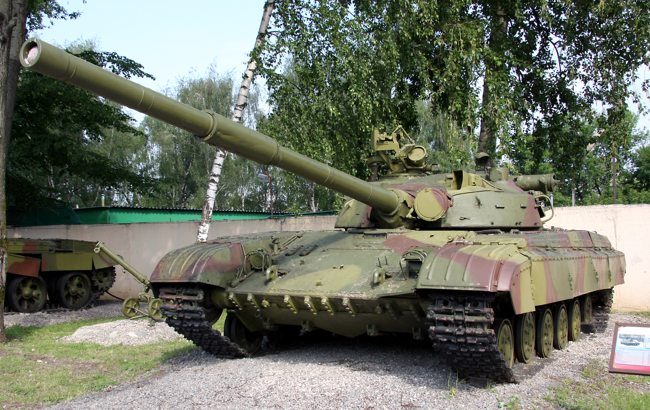 T-64A in Moscow Suvorov Military School armored vehicles and tanks collection